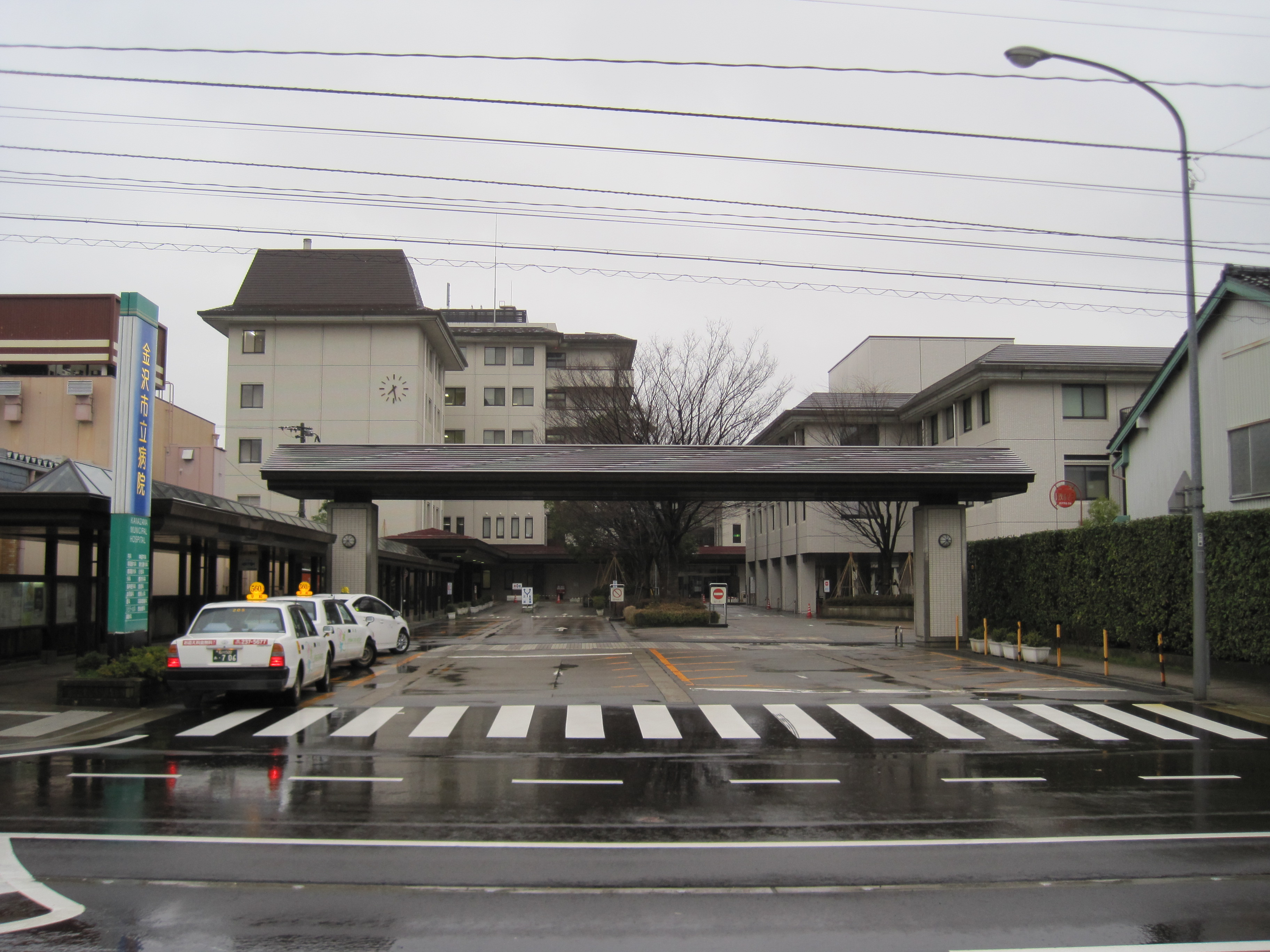 Kanazawa Municipal Hospital(Kanazawa city, Ishikawa prefecture)